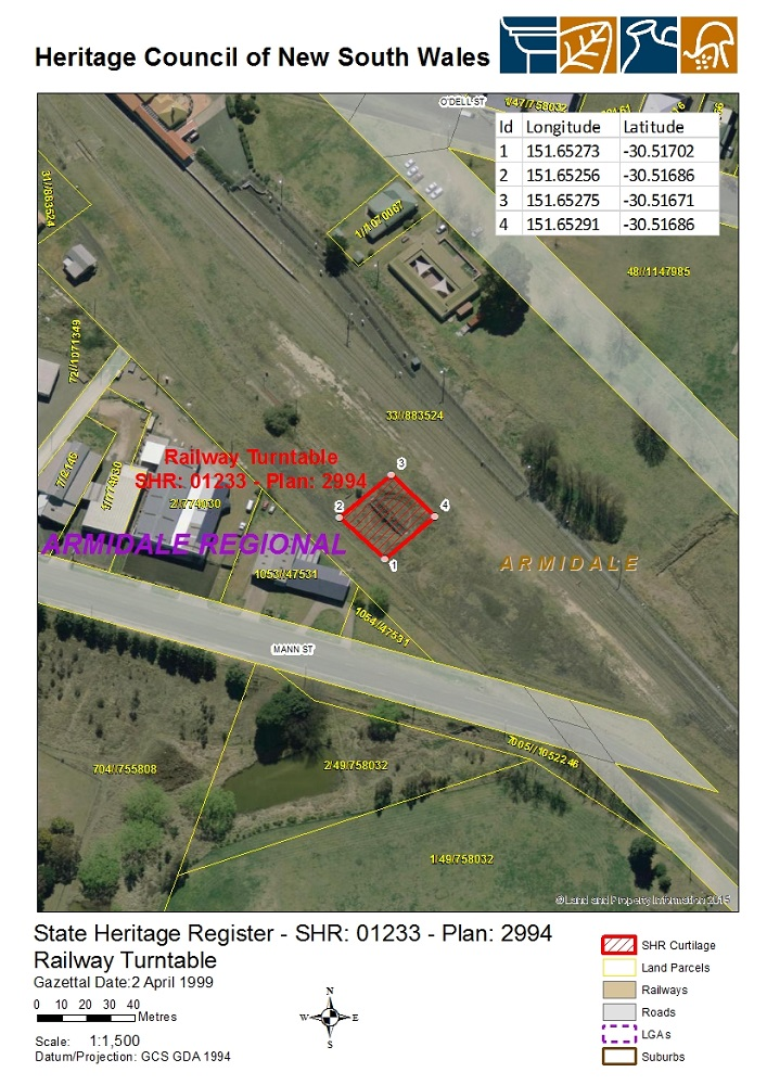 Armidale railway station turntable: SHR Plan No 2994